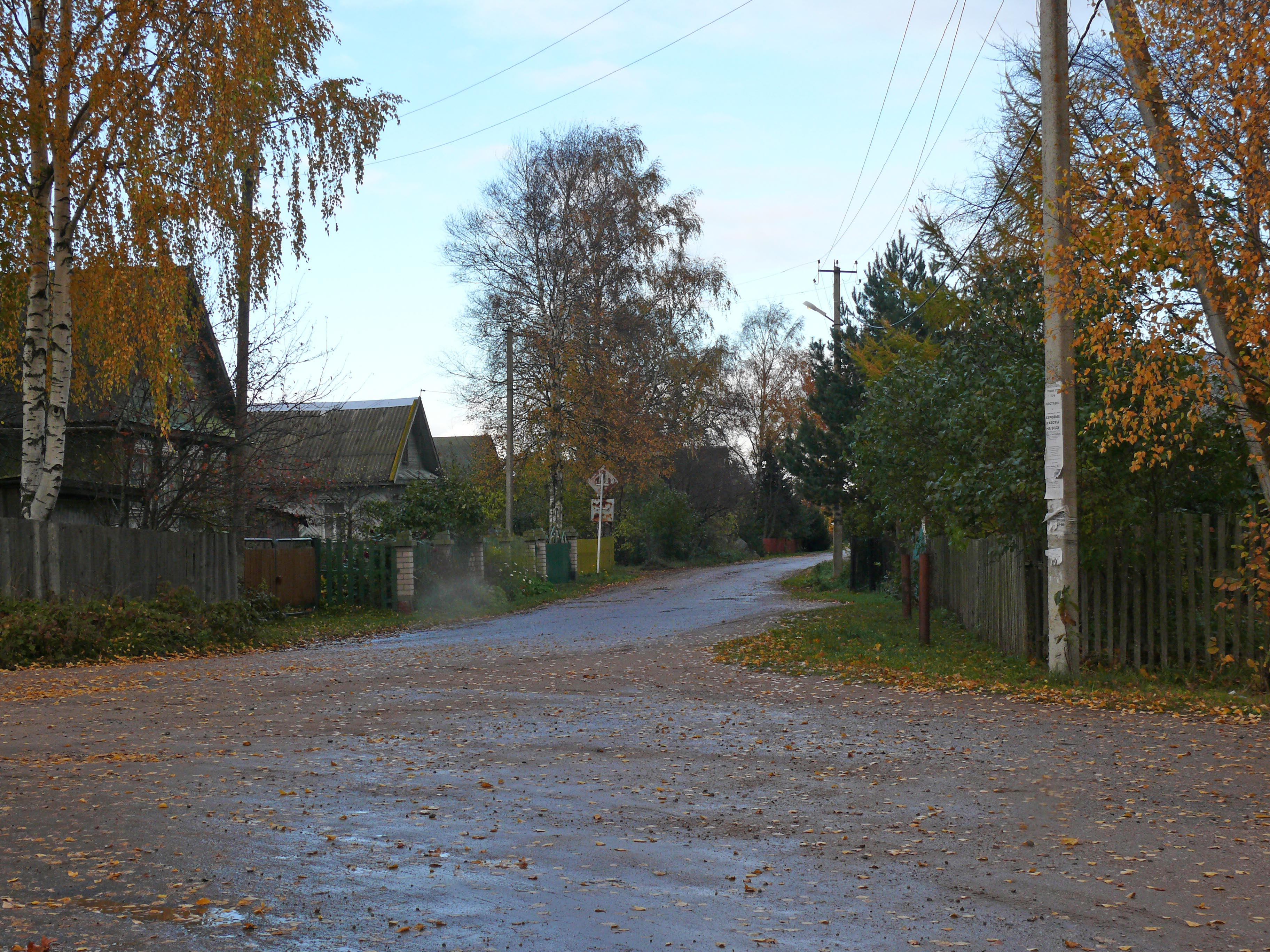 Beregovye Moriny village, Novgorodsky distrikt, Novgorod oblast